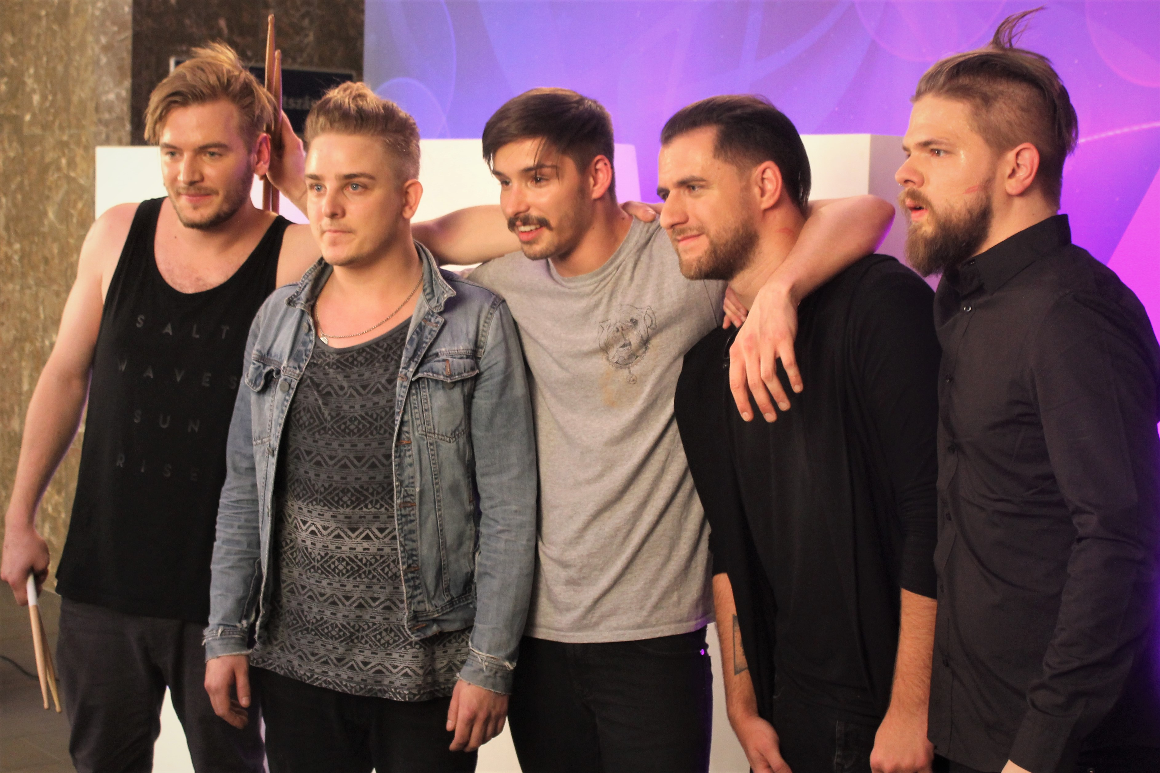 A Dal 2018 winners: AWS